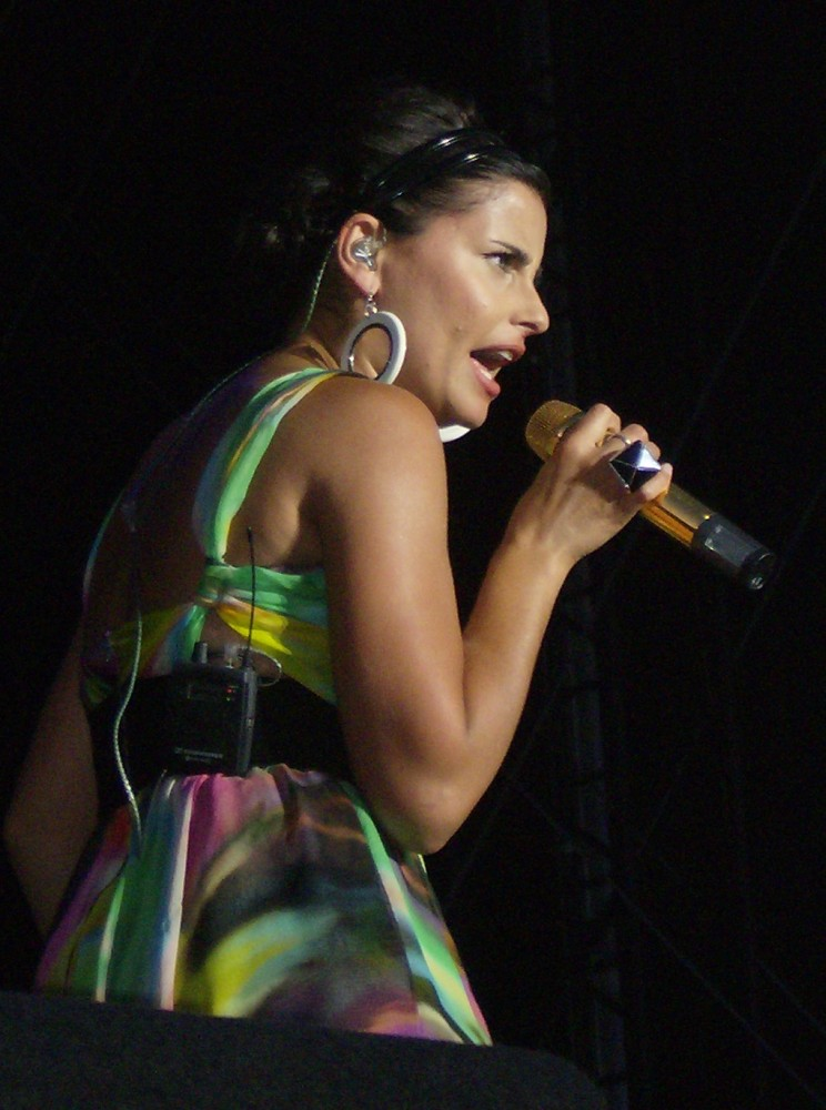 Nelly Furtado, live in Amsterdam, July 7, 2008